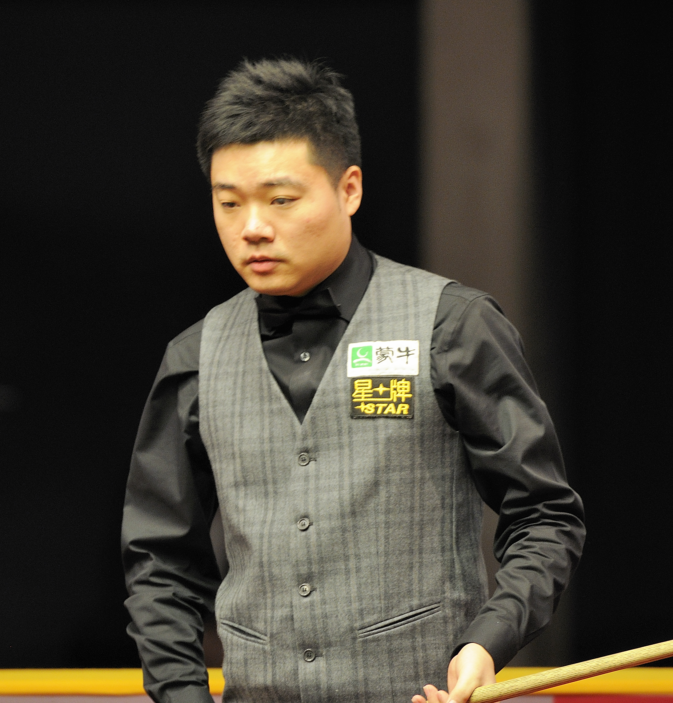 Picture taken in Berlin during the Snooker German Masters in 2014. Ding Junhui.